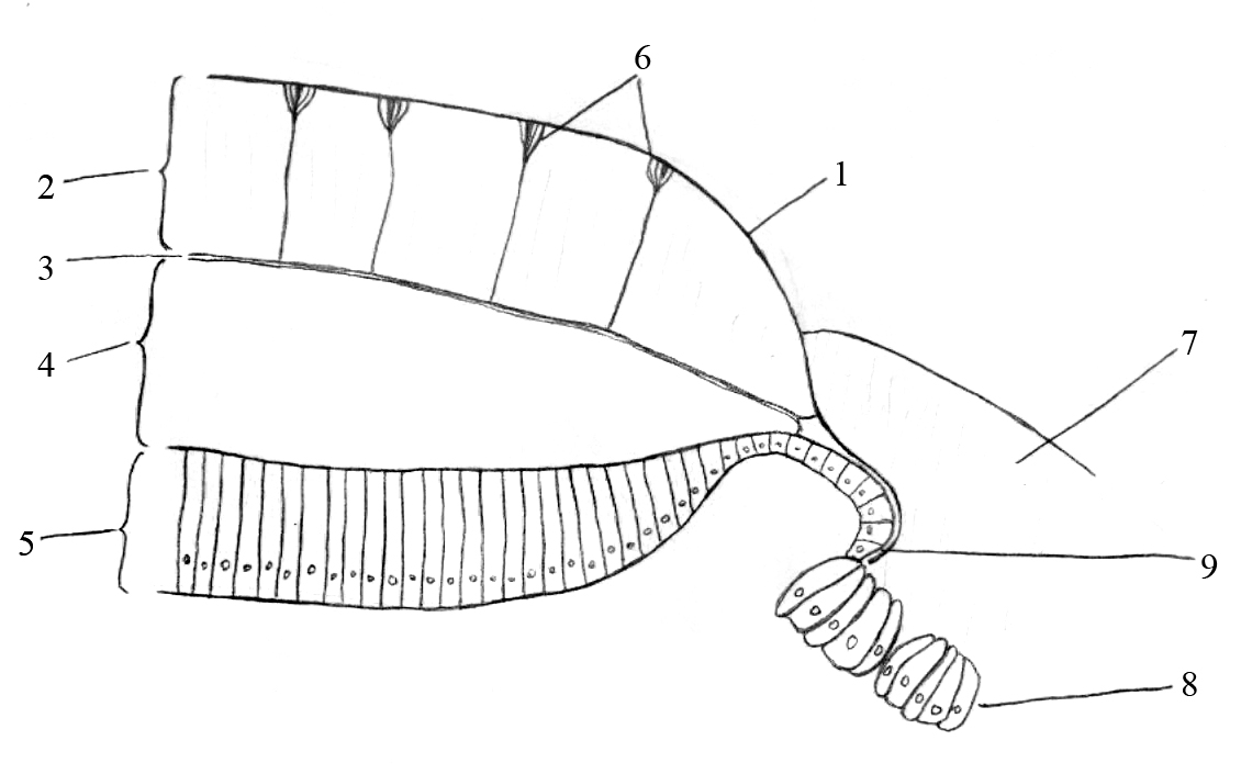 Scheme of shell margin of Polyplacophora